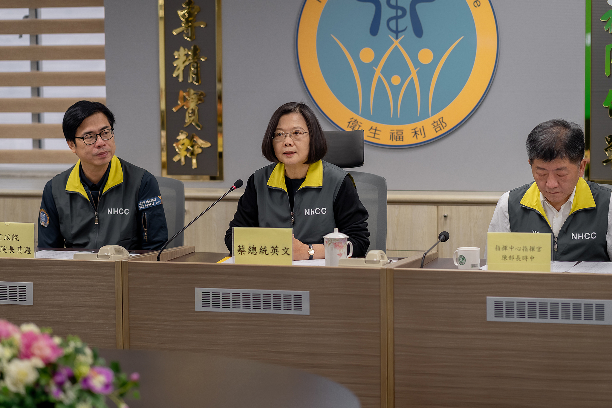 Official Photo by Makoto Lin / Office of the President